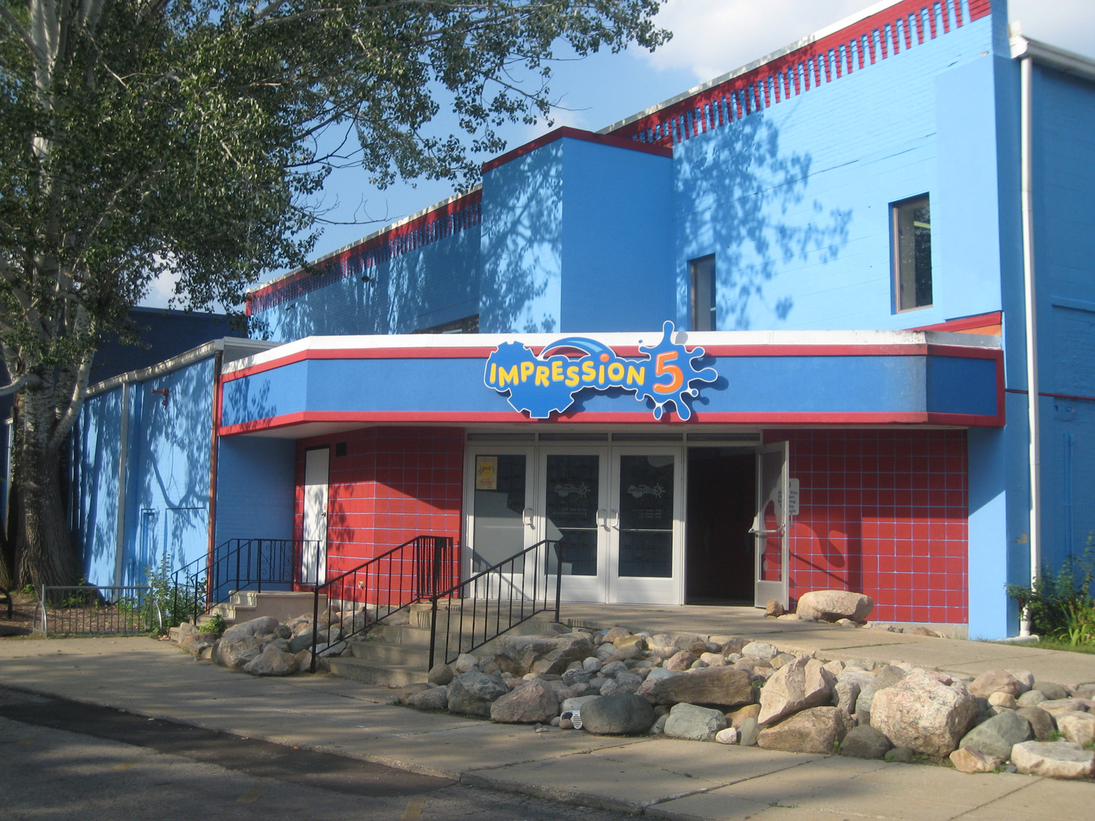 Impression 5 Science Center museum in downtown Lansing, Michigan, south of Michigan Avenue